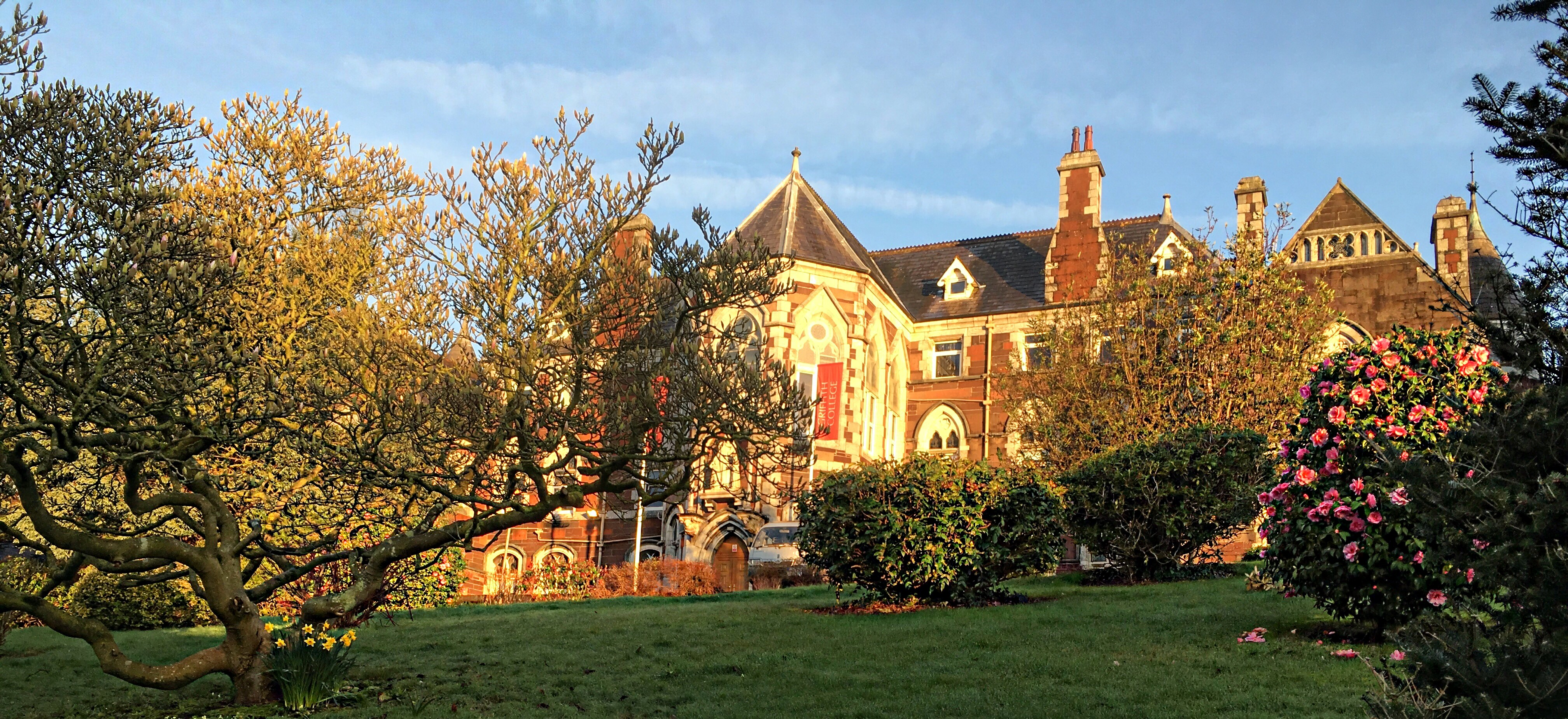 Wellington Rd, Campus.